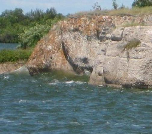 Limestone cliffs near Steep Rock. This photo was originally taken by user:Classenc and I modified it.